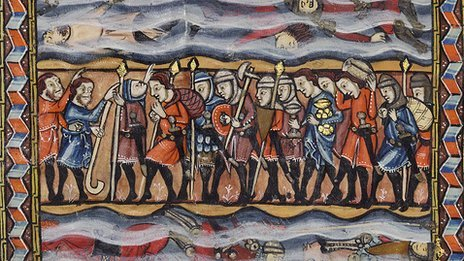 the crossing of the Red Sea, as in Exodus 14:21-15:21, from the Rylands Haggadah illuminated in Spain circa 1325-1350